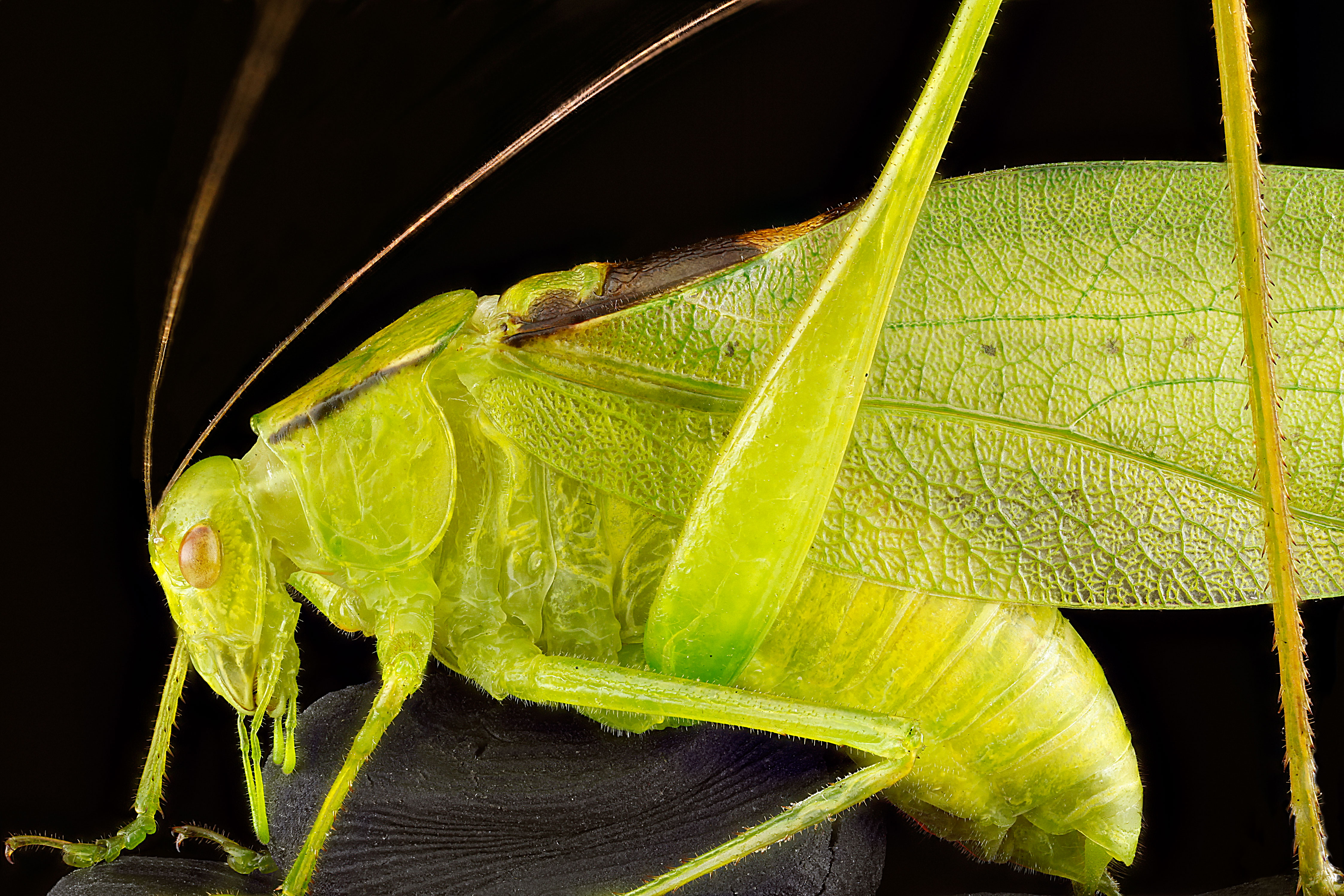 Amblycorypha oblongifolia, Oblong-winged katydid, Upper Marlboro, Maryland, July 2012